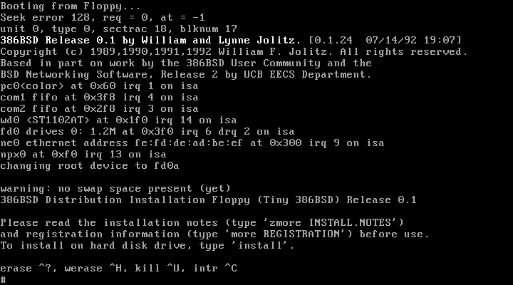 Screenhot of the 386BSD Release 0.1 operating system installer ("Tiny 386BSD") running in the Bochs emulator